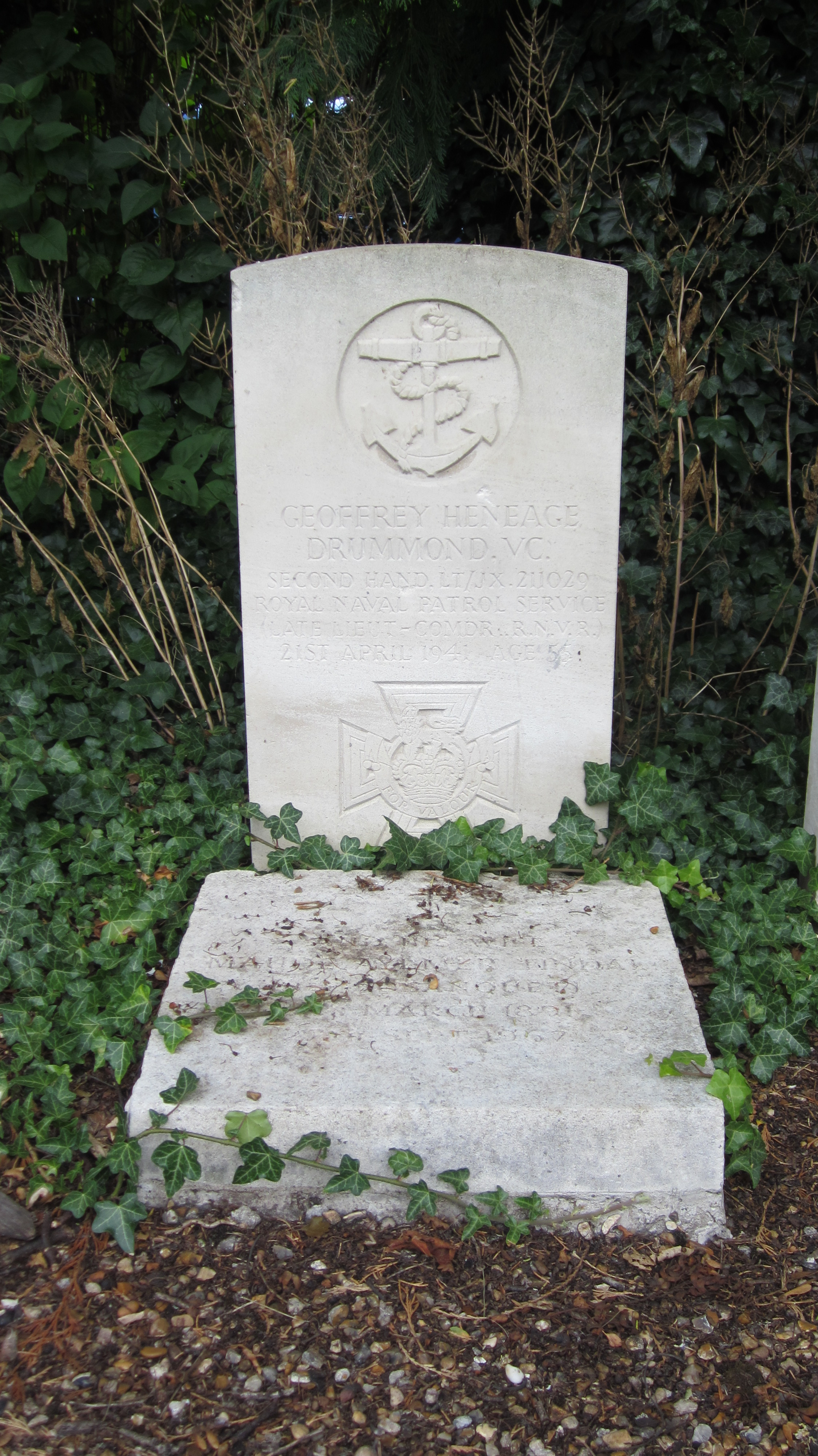 Geoffrey Heneage Drummond's Grave in Chalfont St Peter